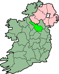 map of County Cavan, Ireland 08:02, 5 February 2004 Morwen 200x249 (30611 bytes) (map)